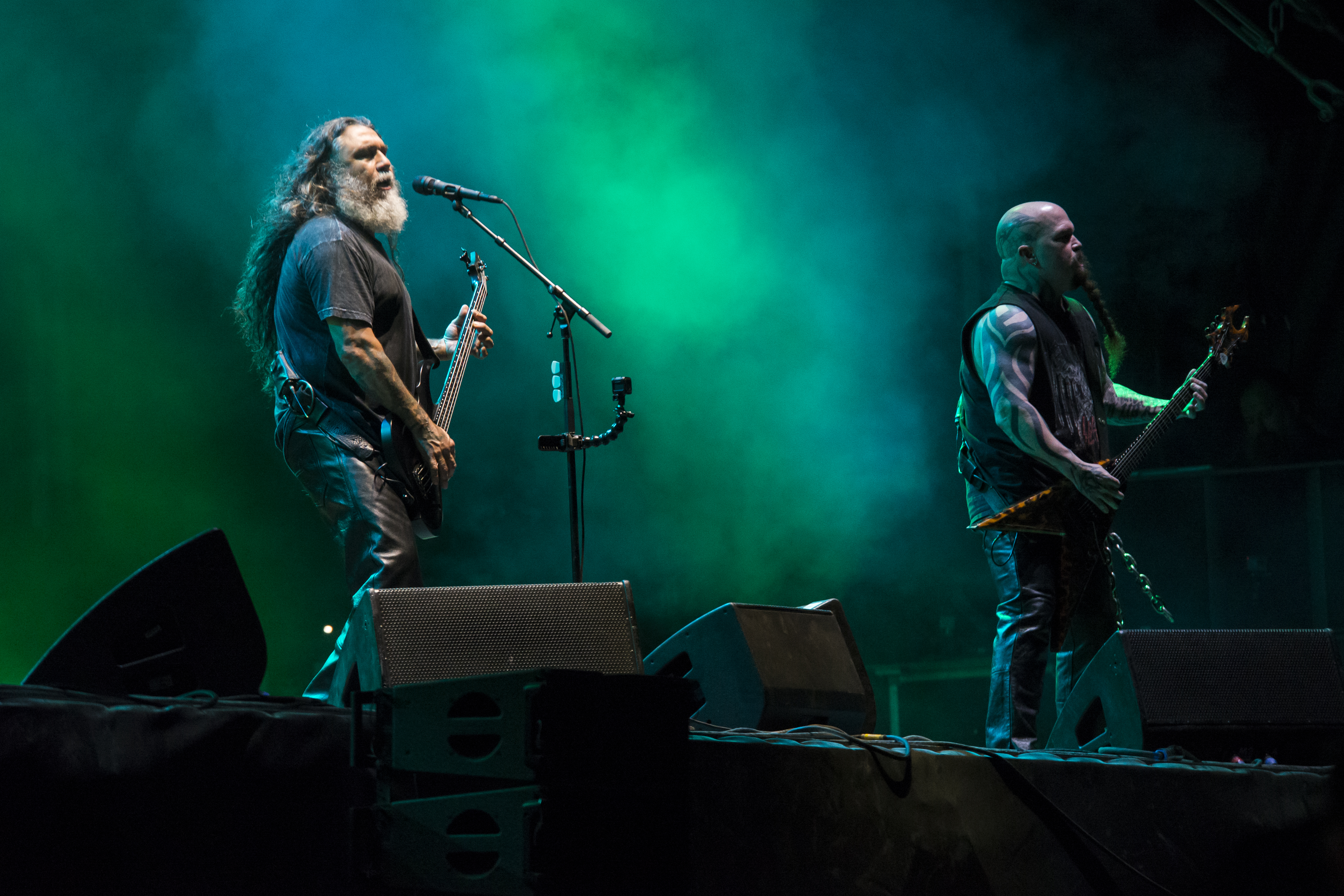 Slayer show, 2017 Hellfest, France.